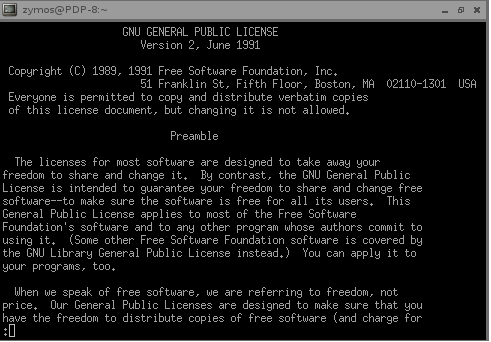 a screenshot of the unix terminal pager pg (Unix) in xterm